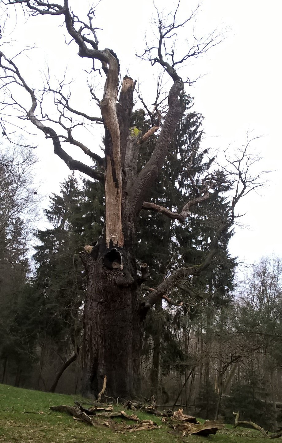 Oak Chrobry in Poland, Forest District Szprotawa